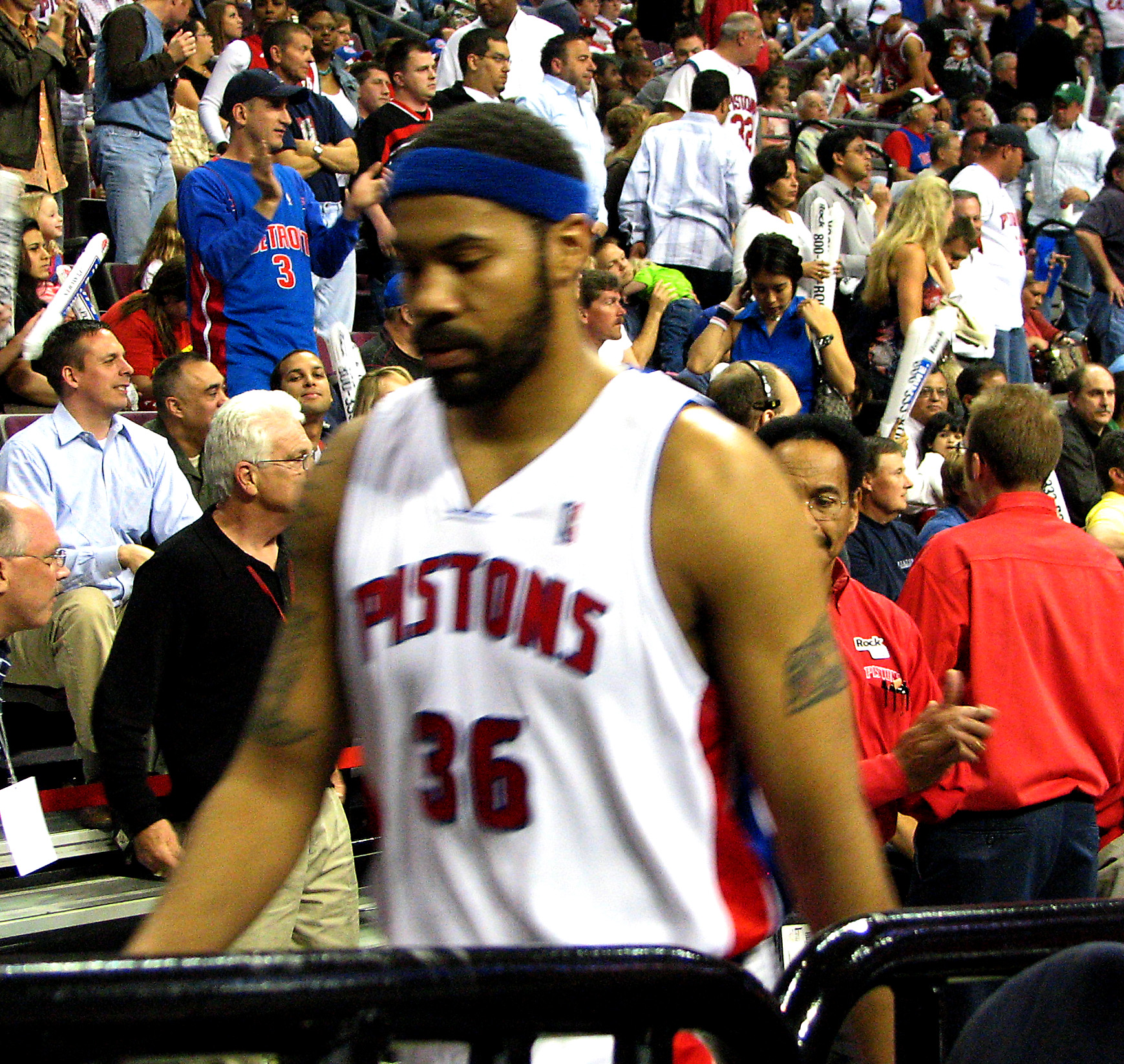 Rasheed Wallace leaves the court after the Pistons' dominating first-half performance in Game 1 of Detroit's series against Chicago.